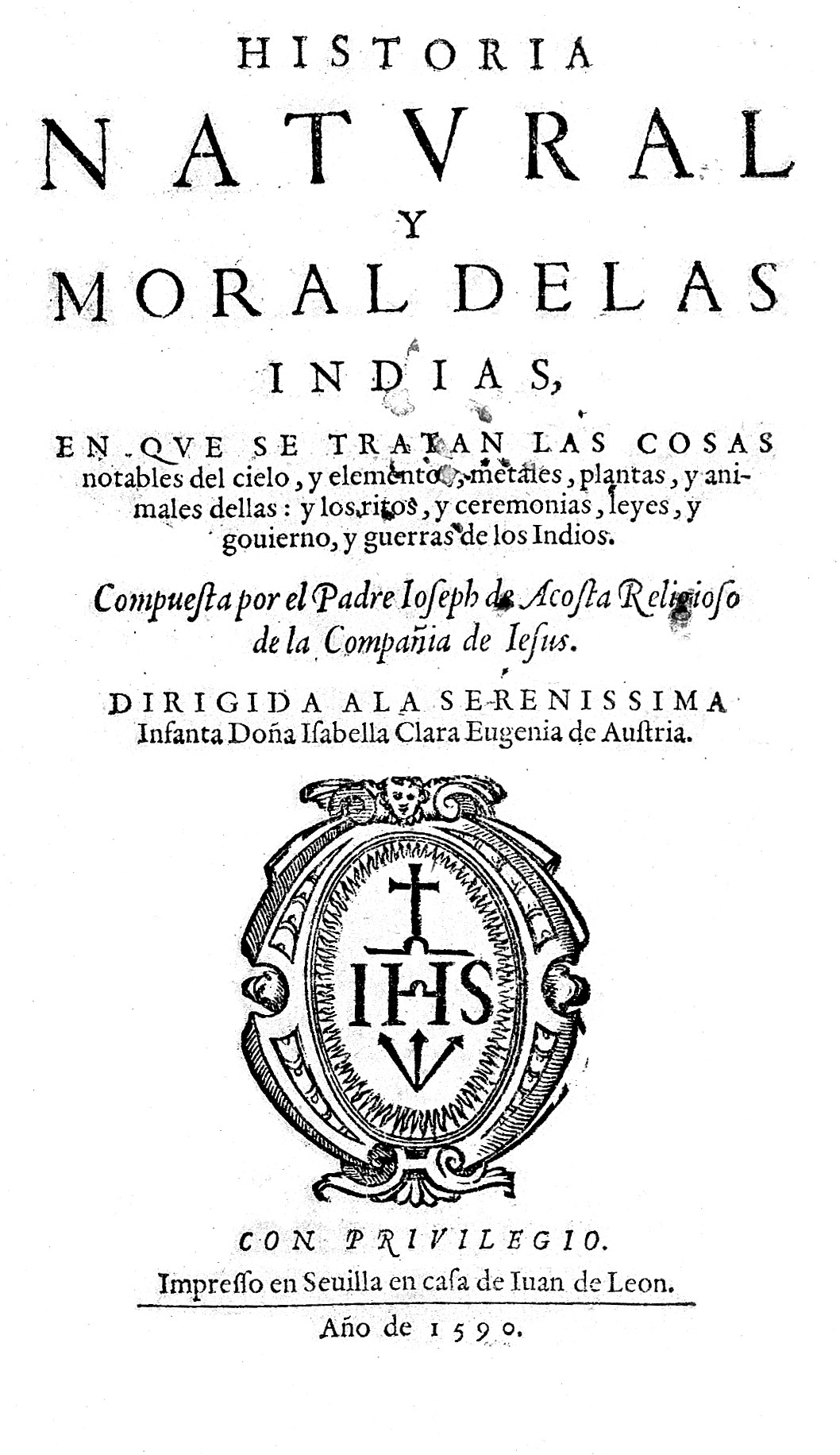 Title page Rare Books